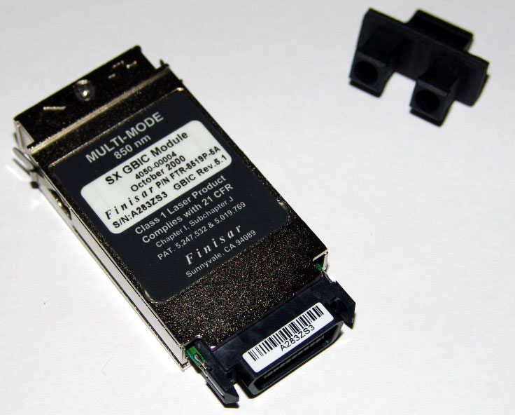 A GBIC of the Manufacter Finisar (P/N: FTR-8519P-5A) with protective cap